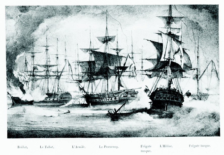 Frigates.